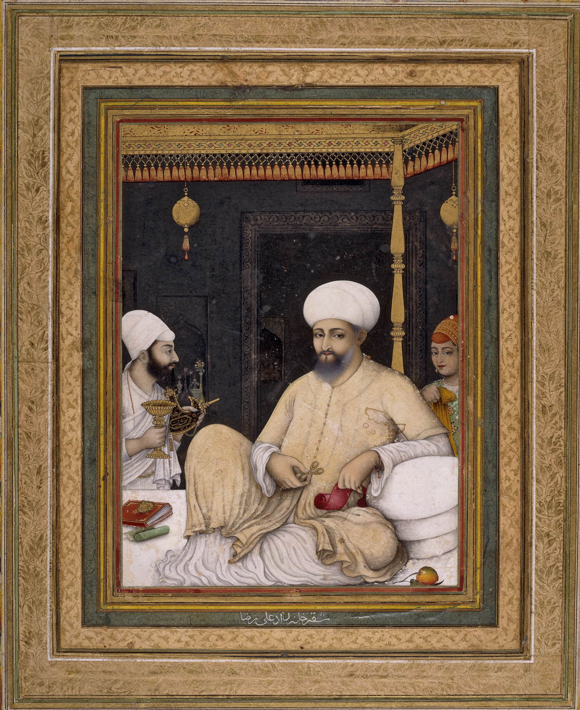 Ali Riza (painter). Sultan Ibrahim Adil Shah II Venerates a Sufi Saint, Bijapur, ca 1620-30, British Museum, London